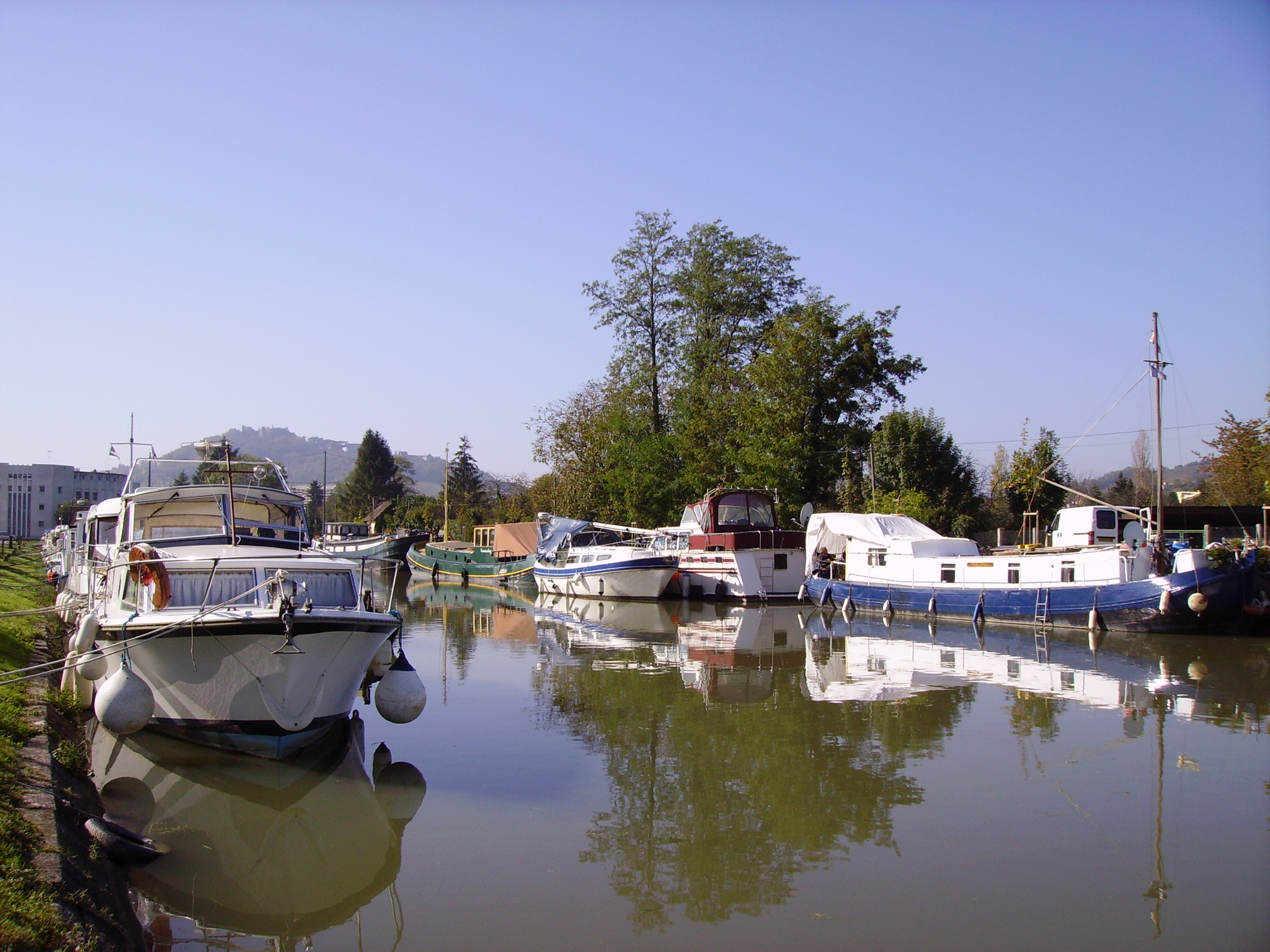 Marina in Saint-Thibault-sur-Loire (faubourg of Saint-Satur) on the canal junction of the Canal latéral à la Loire, Cher department, Centre-Val de Loire region, France. The Loire River flowing near the back of the photographer. The hill of Sancerre is visible in the distance.